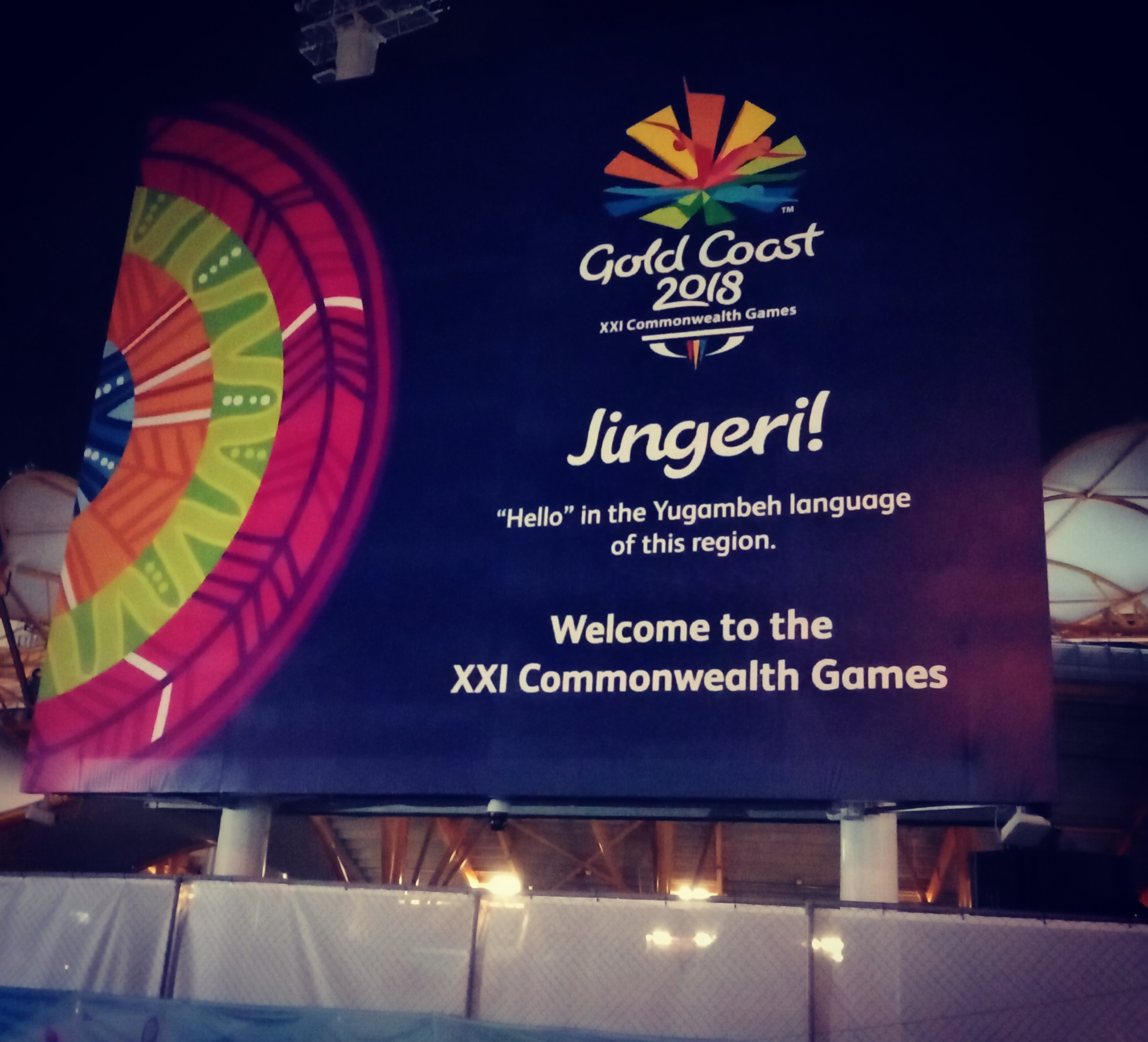 A welcome sign outside Carrara stadium during the commonwealth Games 2018, Jingeri - Hello in Yugambeh language